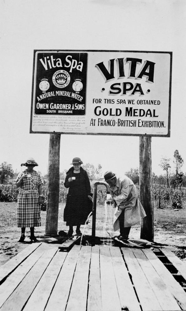 Two women and a man taking the waters at Helidon Spa, ca. 1918. Two women and a man taking the waters from the Vita Spa spring at Helidon. The sign boasts that it won a gold medal at the Franco-British Exhibition in London. The note at the bottom left of the sign reads: The presence of Lithia Iron and the considerable quantity of Potassium Bicarbonate, render this an excellent tonic and Alterative Mineral Water preferable for continual consumption to the Continental Spas. Geo. Henry Irvine. London.